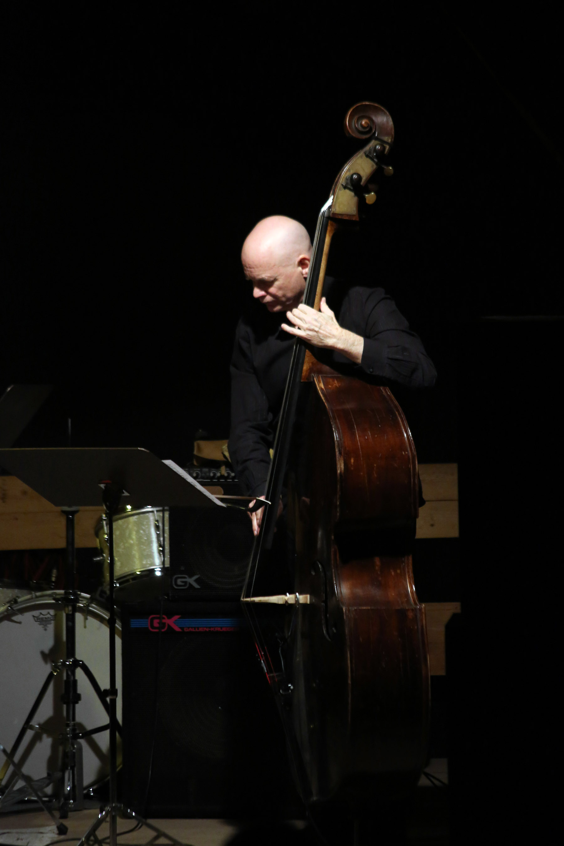 Jon Irabagon Trio 'FOXY - Jon Irabagon (sax.), Mark Helias (b.), Barry Altschul (dr.) - Ulrichsberger Kaleidophon (Ulrichsberg, Upper Austria)